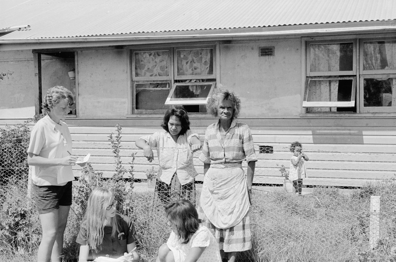 Ann Curthoys and Louise Higham interview residents at Moree Aborigial Station during the Freedom Ride on 17 February 1965